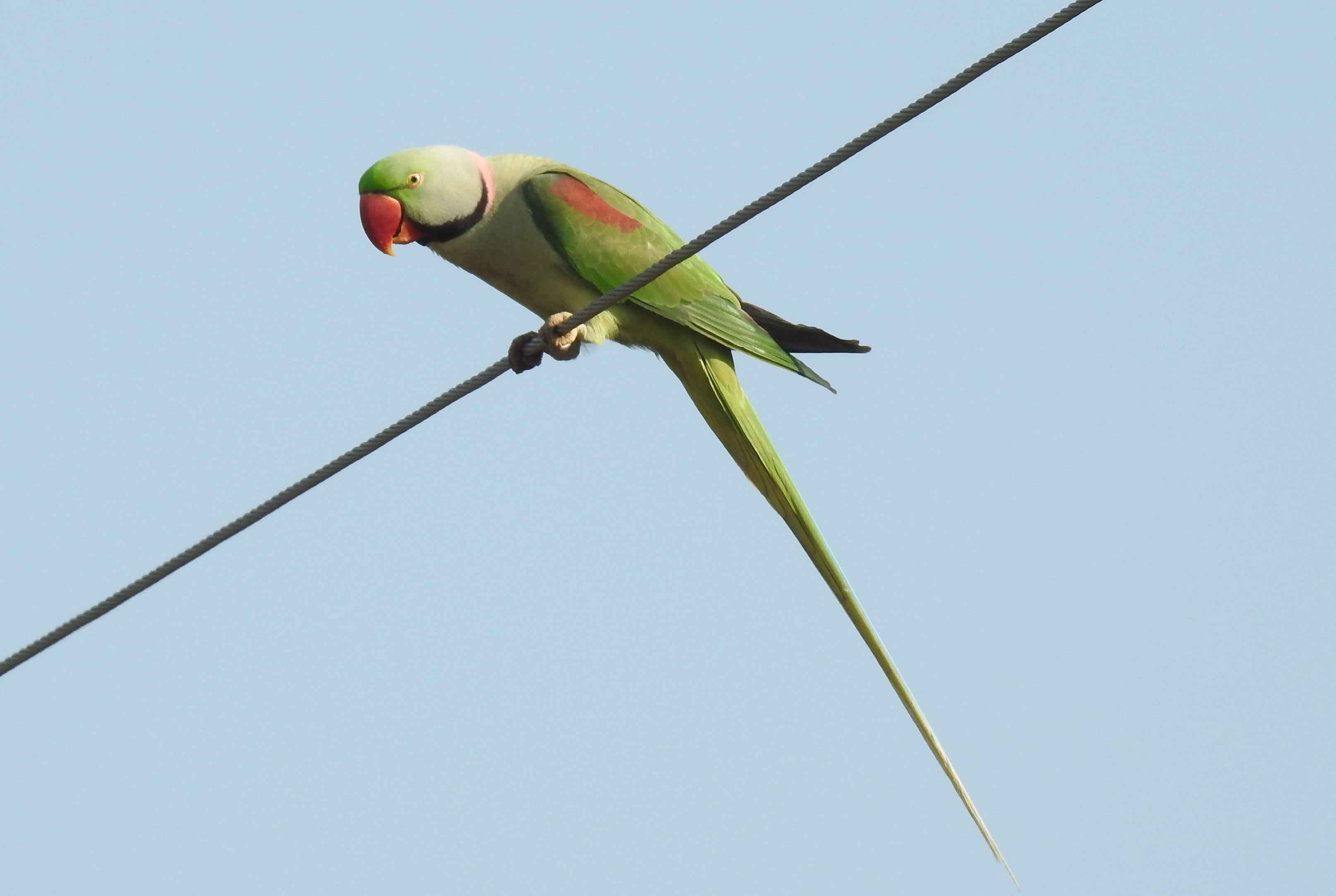 Alexandrine Parakeet Psittacula eupatria. Photographed in Yavatmal district, Maharashtra, India.